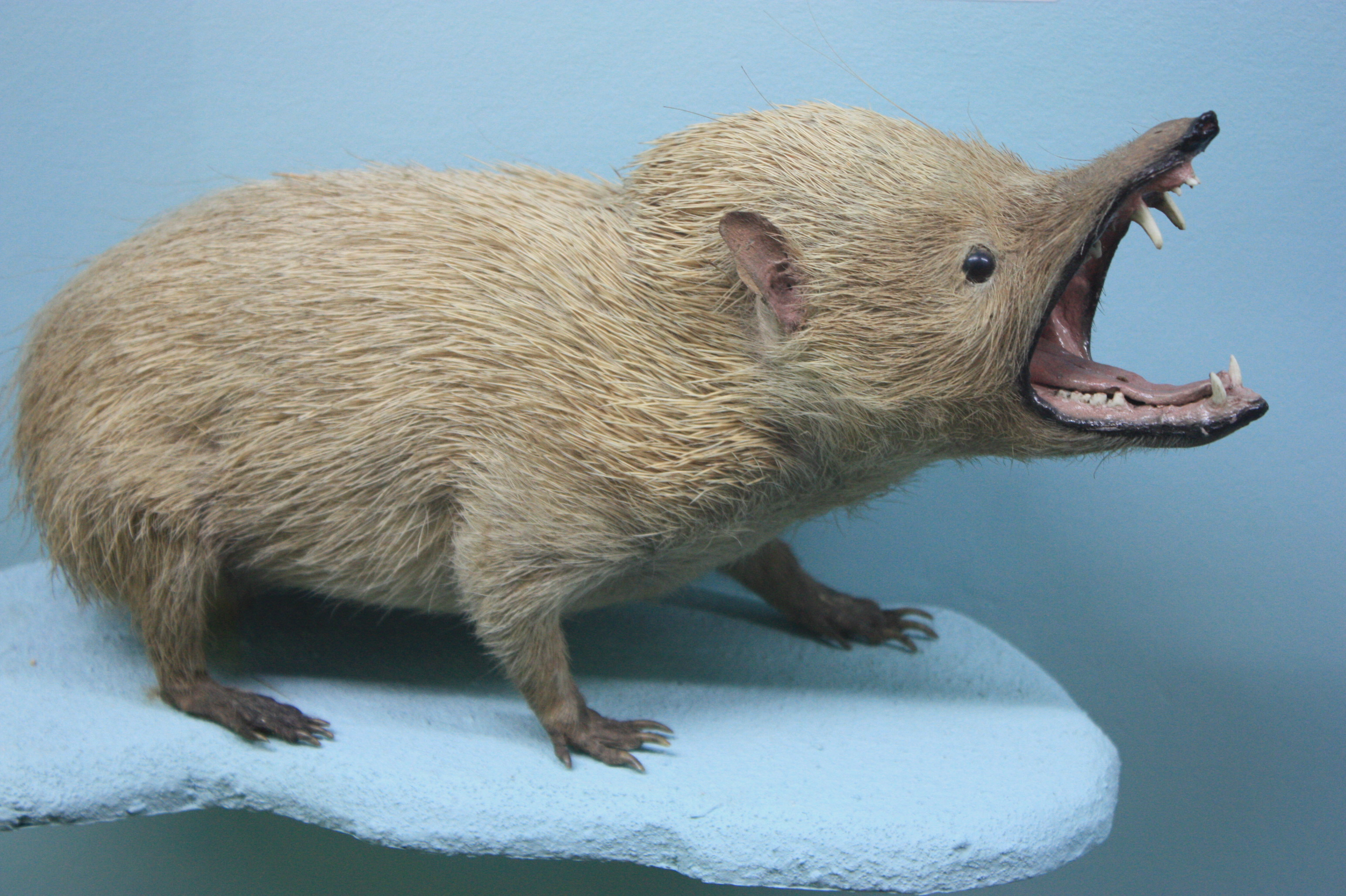 A tenrec in defensive mode, Horniman Museum, London